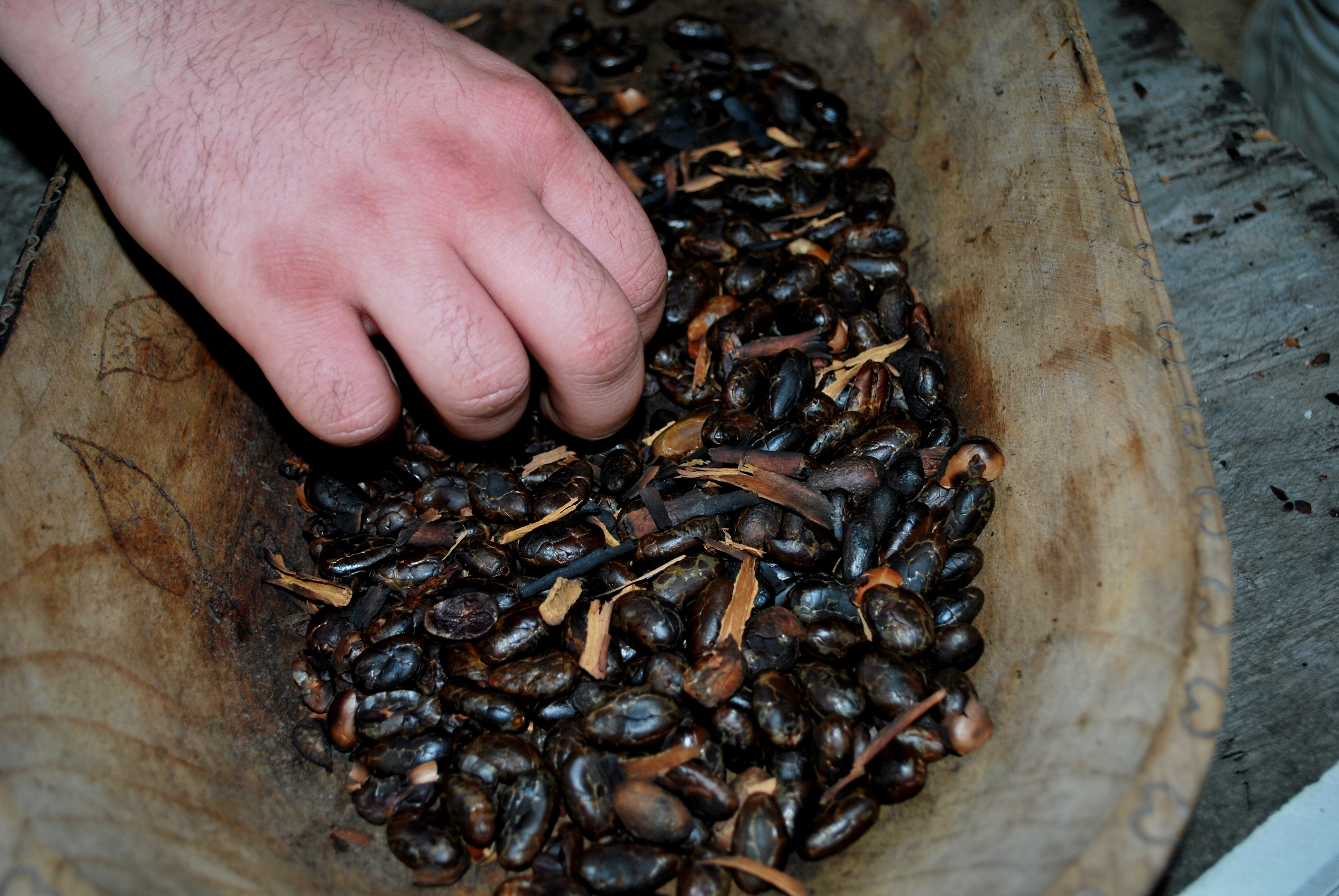 toasted cacao beans at La Chonita Hacienda in Tabasco, Mexico